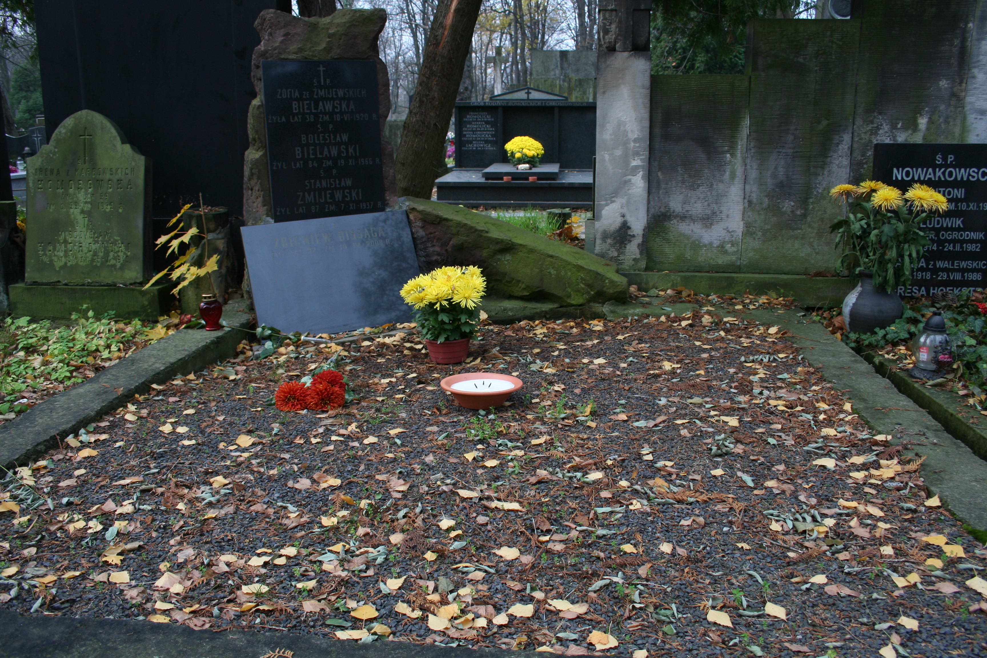 Grave of Bolesław Bielawski at Powązki Cemetery in Warsaw, Poland